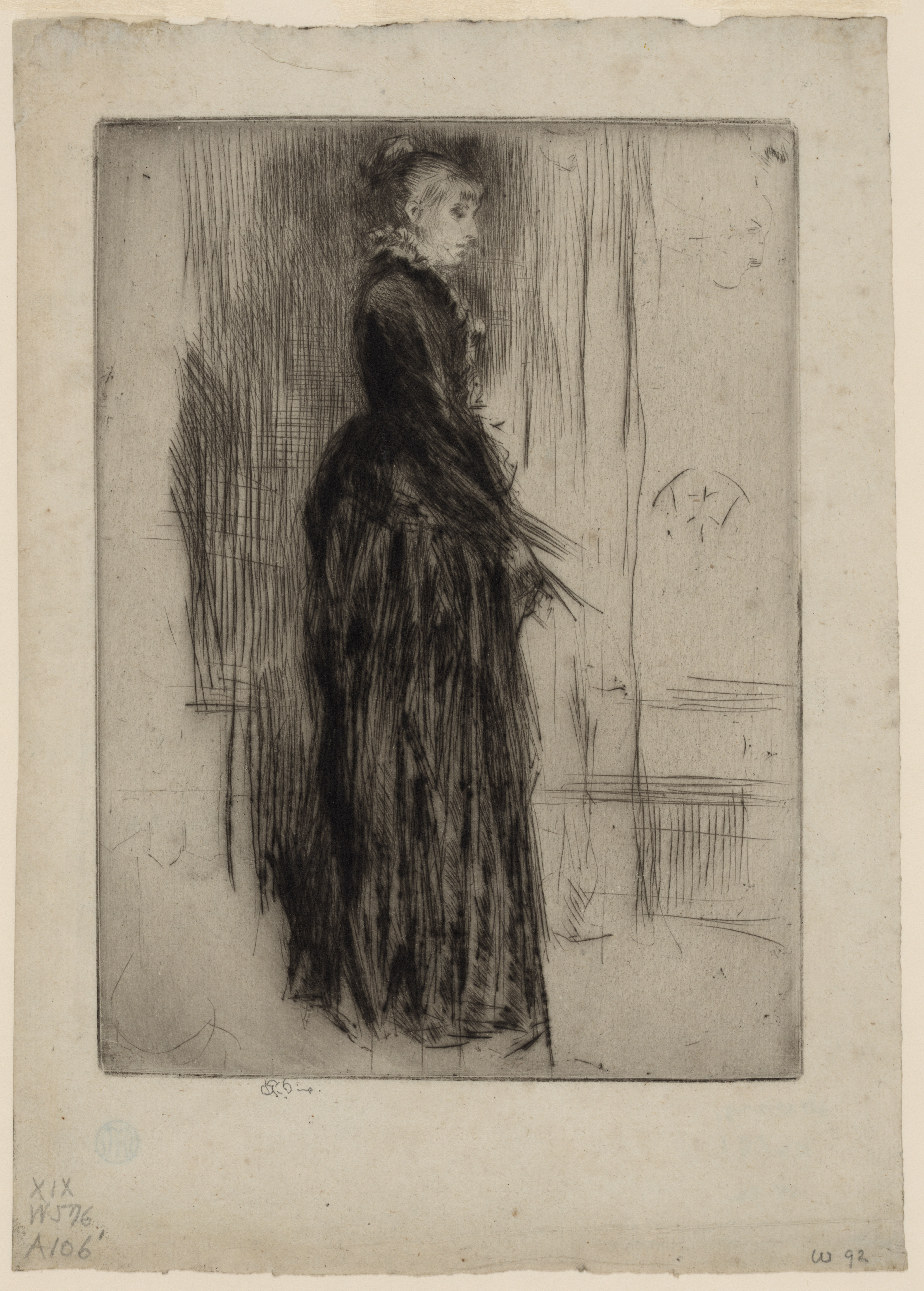 Title: The little velvet dress Abstract/medium: 1 print : drypoint ; 16.4 x 12.1 cm.